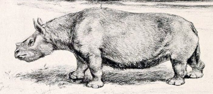 Cropped image of taxon in file name